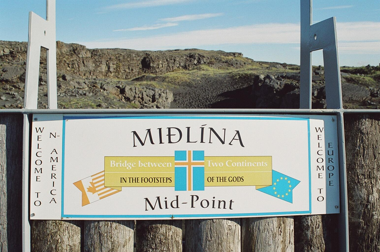 Bridge over continents 2, Iceland, GNU-FDL The photo was taken by my-self in september 2004.